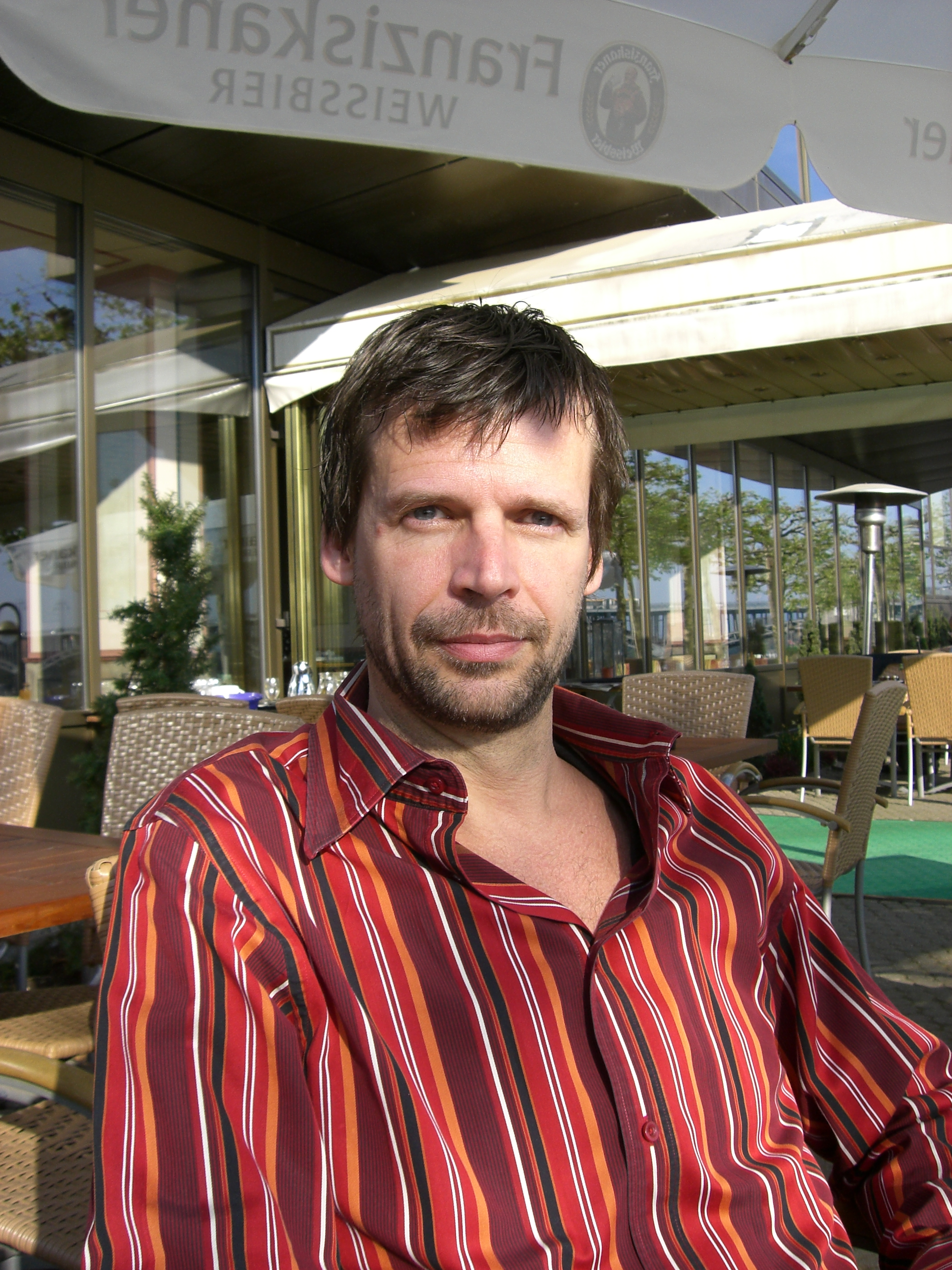 Dick Hardt (founder and CEO of Sxip Identity) at the Web 2.0 Kongress 2007 in Mainz/Germany